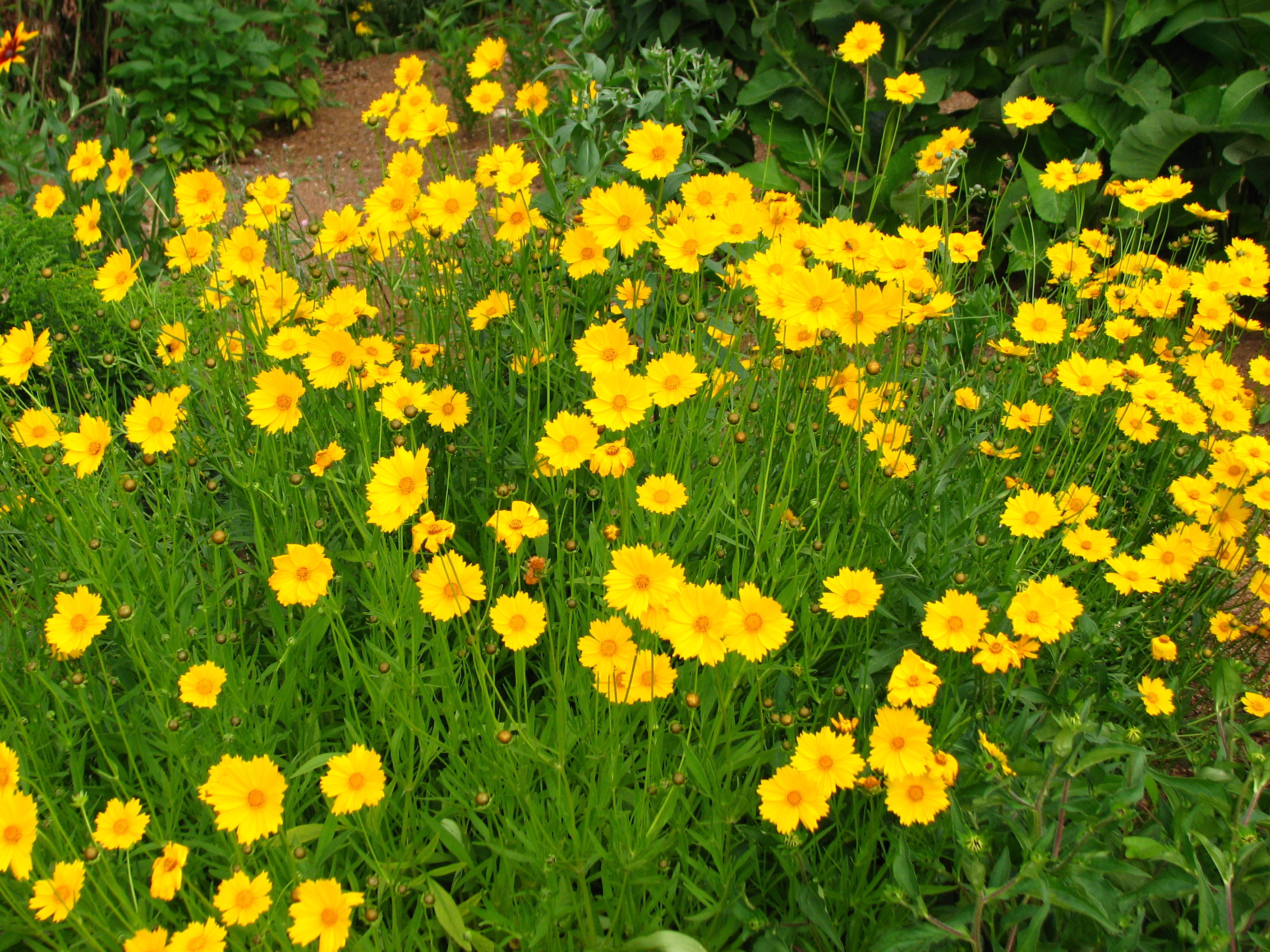 Coreopsis grandiflora. From the collection of the Main Botanical Garden of Academy of Sciences in Moscow (perennials plot).